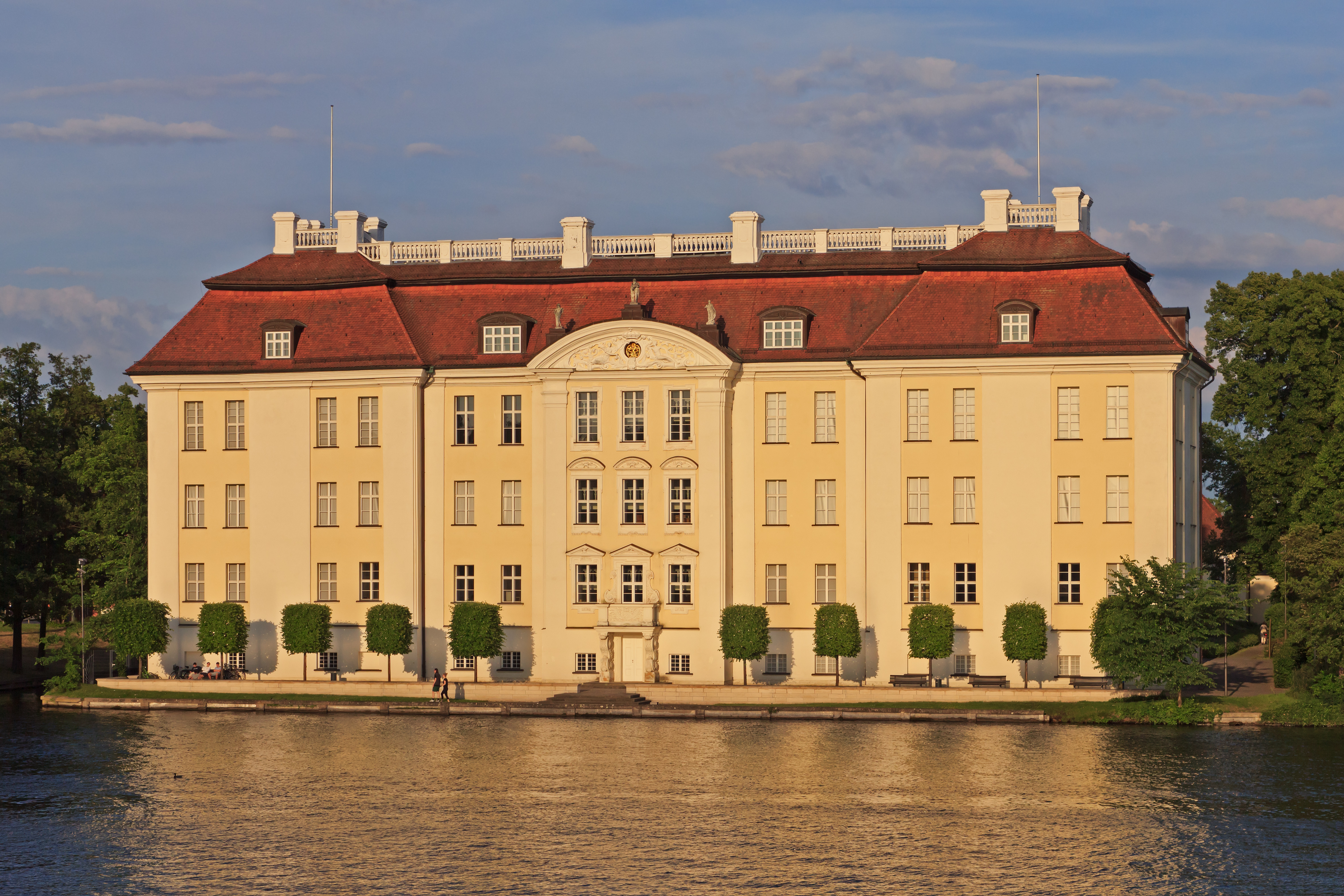 The Köpenick Palace, Berlin, Germany